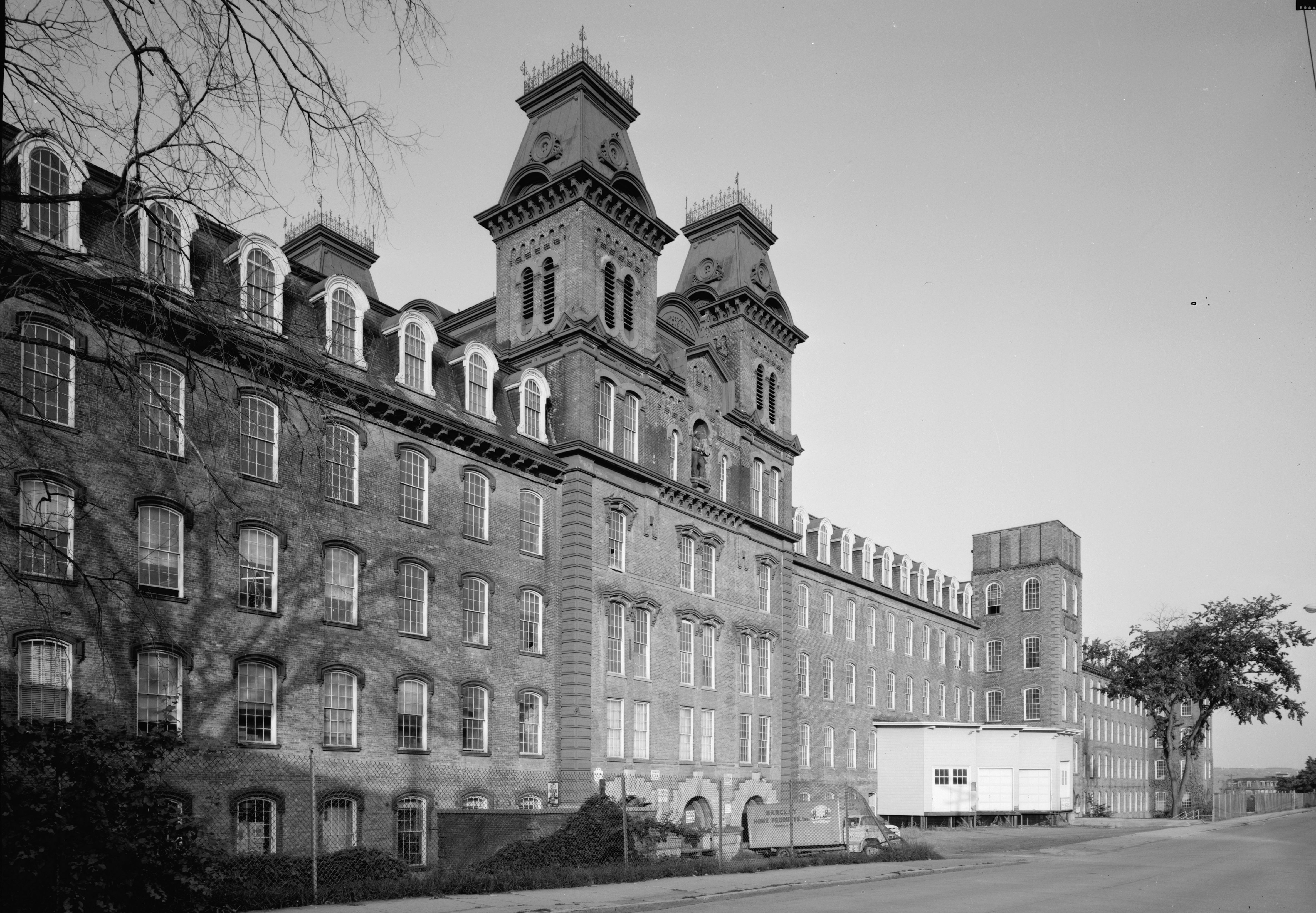 Harmony Manufacturing Company, Mill Number 3, 100 North Mohawk Street, Cohoes, Albany County, NY.